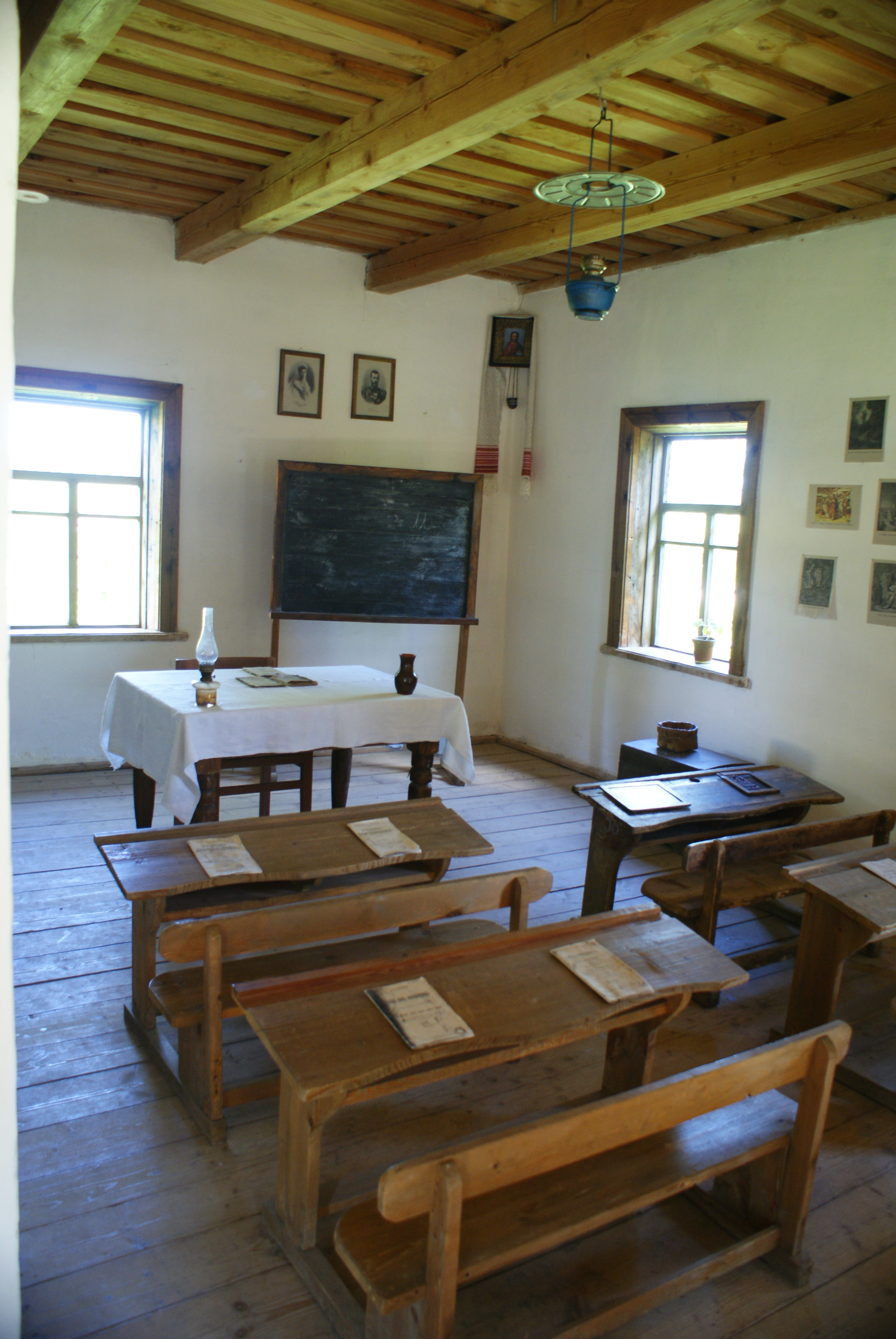 State museum of folk architecture and life, Belarus